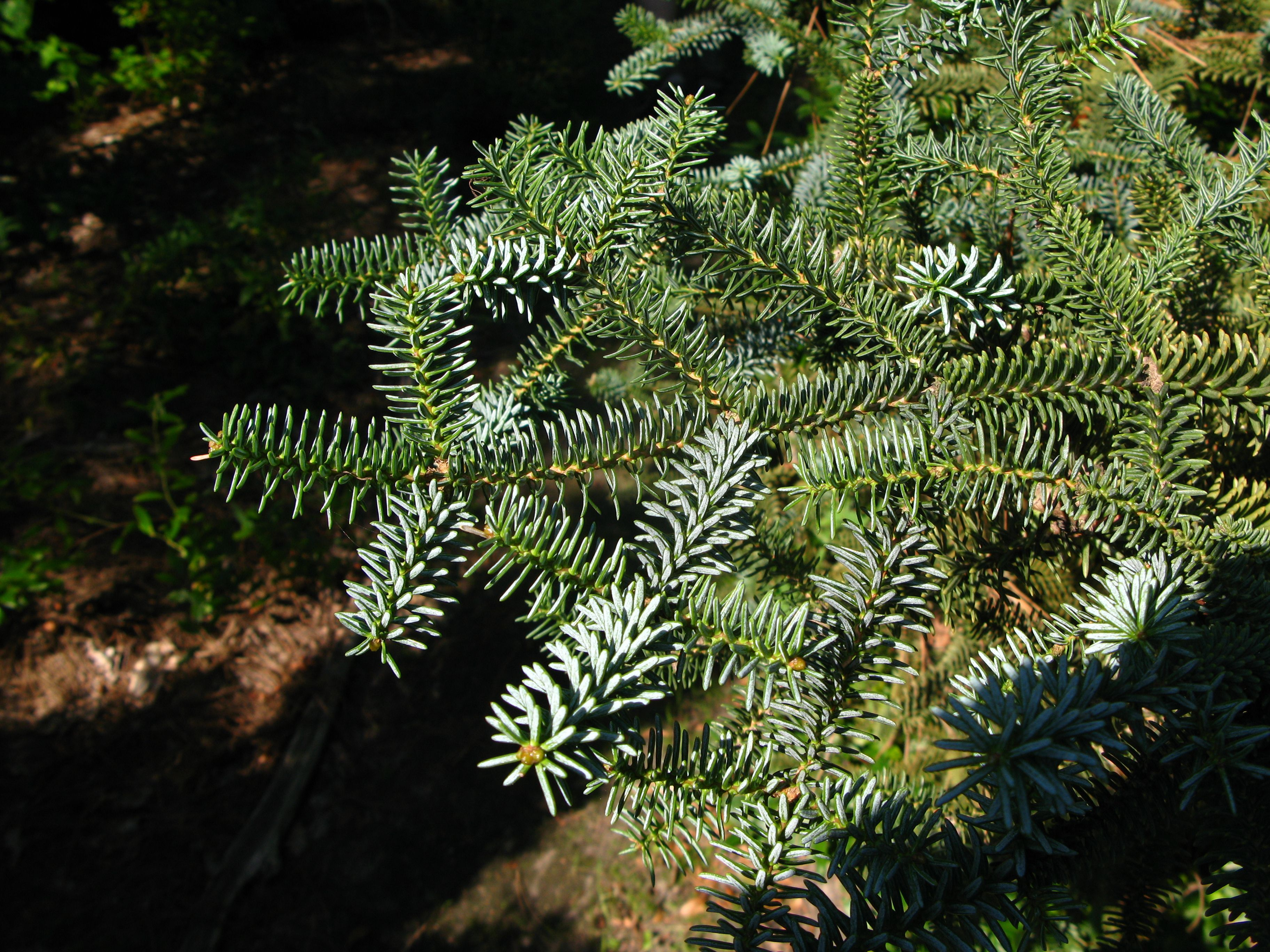 Abies pinsapo 'Glauca' in Arboretum in PAN Botanical Garden in Warsaw